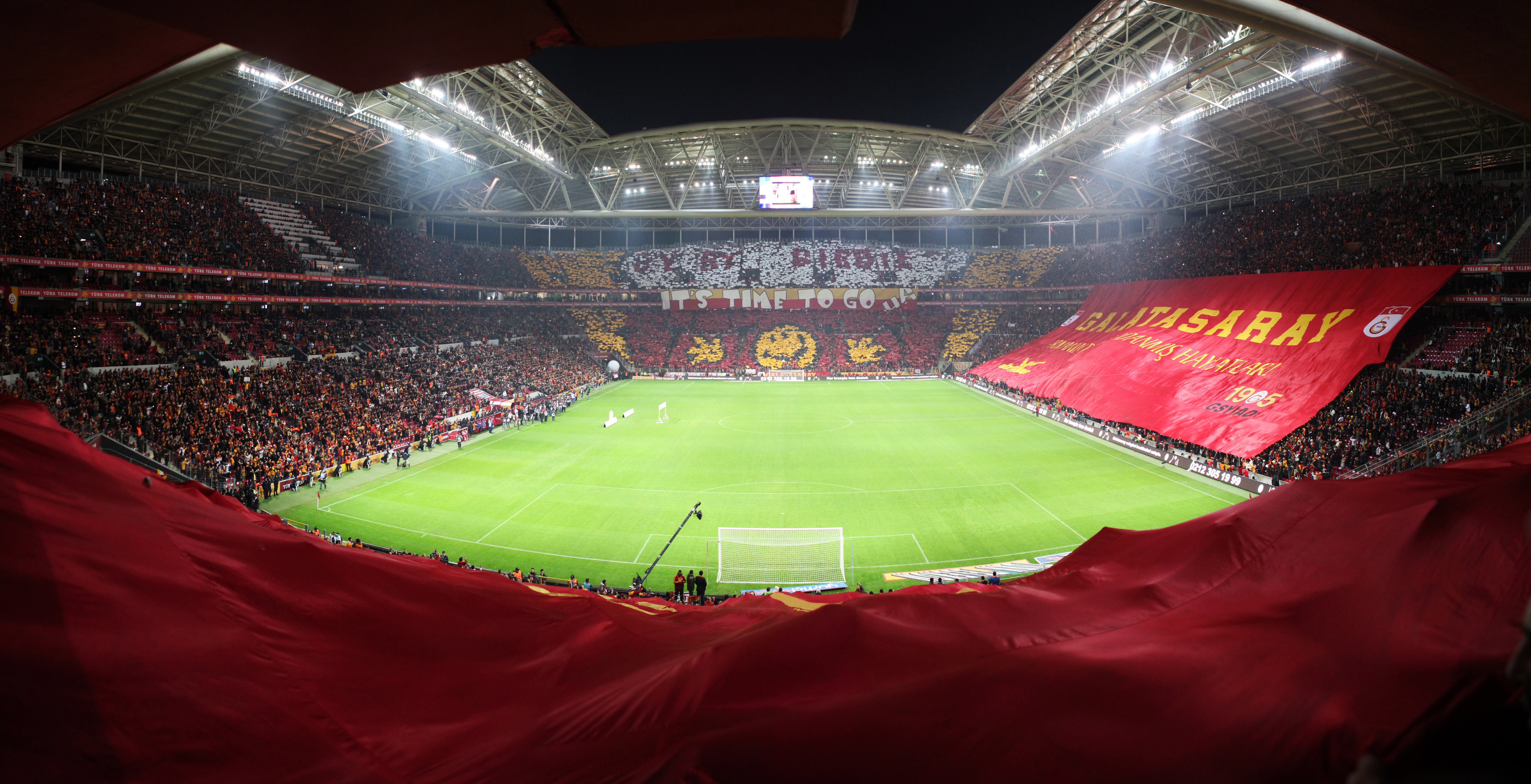 Galatasaray - Fenerbahçe Intercontinental Derby 3-1Türkçe: Galatasaray - Fenerbahçe Kıtalararası Derbi 3-1